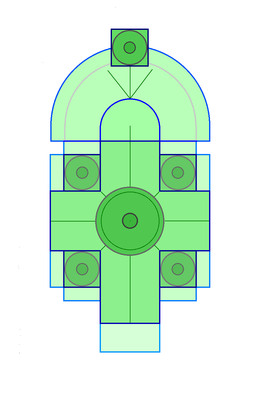 Schematic plan of the heights of the roofe and waals of Sacré-Cœur de Montmarte in Paris. The ring of chapels around the choir has been drawn a bit simplified.